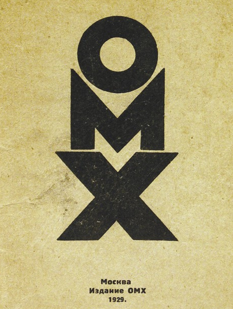 Exhibition Catalog of the 2nd Exhibition of the Society of Moscow Painters (1929). Moscow: Society of Moscow Painters. Cover.